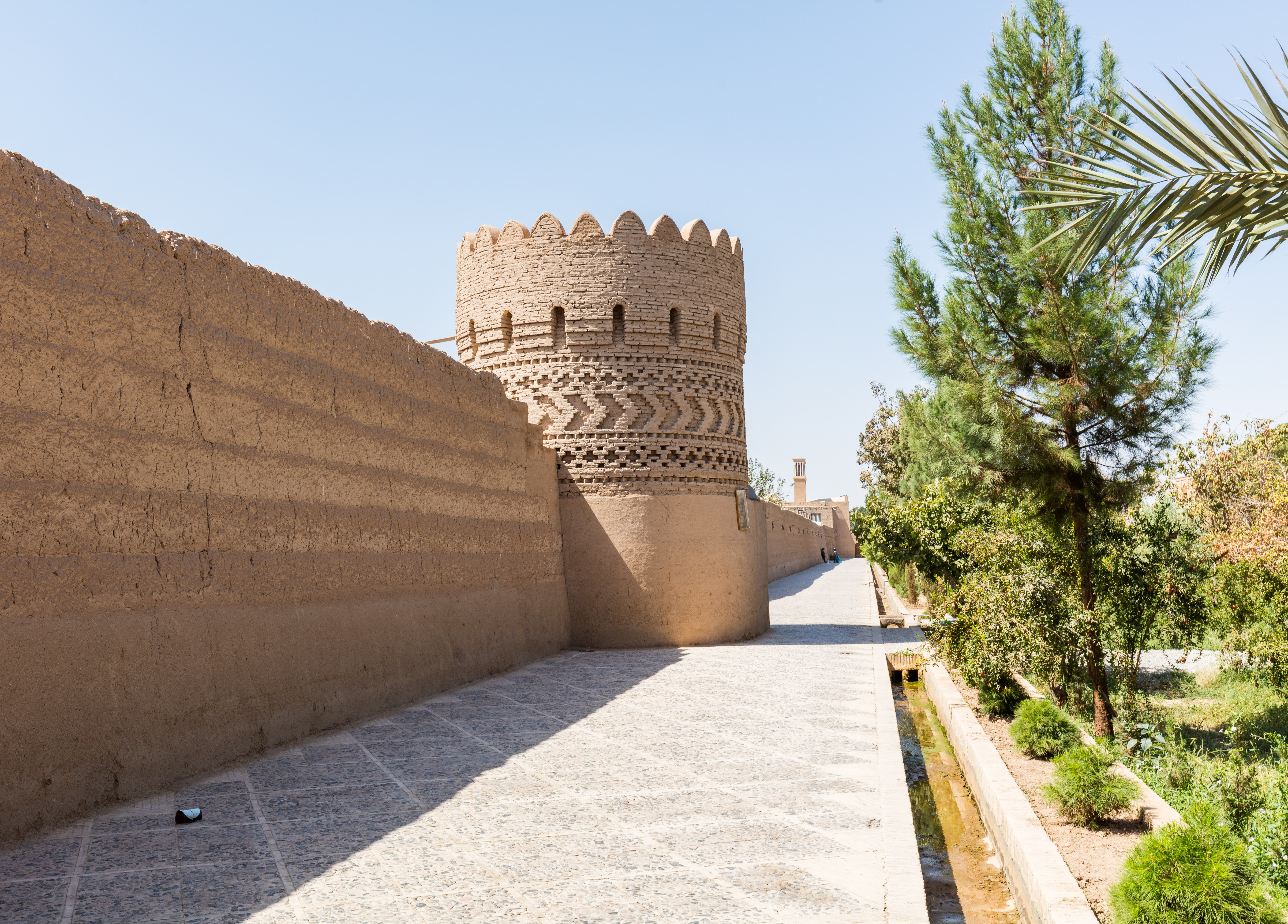 Dolat-Abad Garden, Yazd, Iran